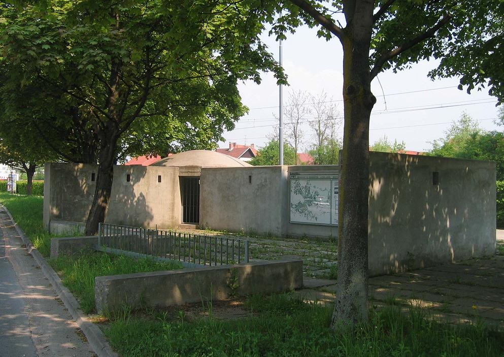 Trail of Remembrance and Comradeship (Pot spominov in tovarištva) - Ljubljana Remains of an Italian military bunker in Šiška photo:Ziga 08:48, 7 May 2006 (UTC)